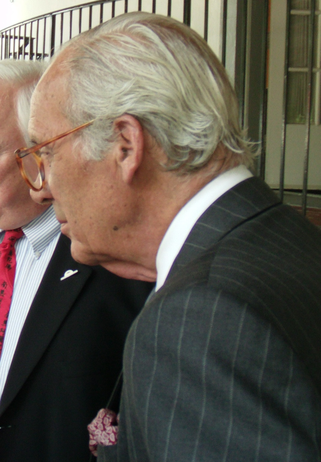 Lewis H. Lapham, American writer and editor, at an American Library Association conference. Note that even though the EXIF data says 2007, the author is certain it was taken in the summer of 2010 in Washington.